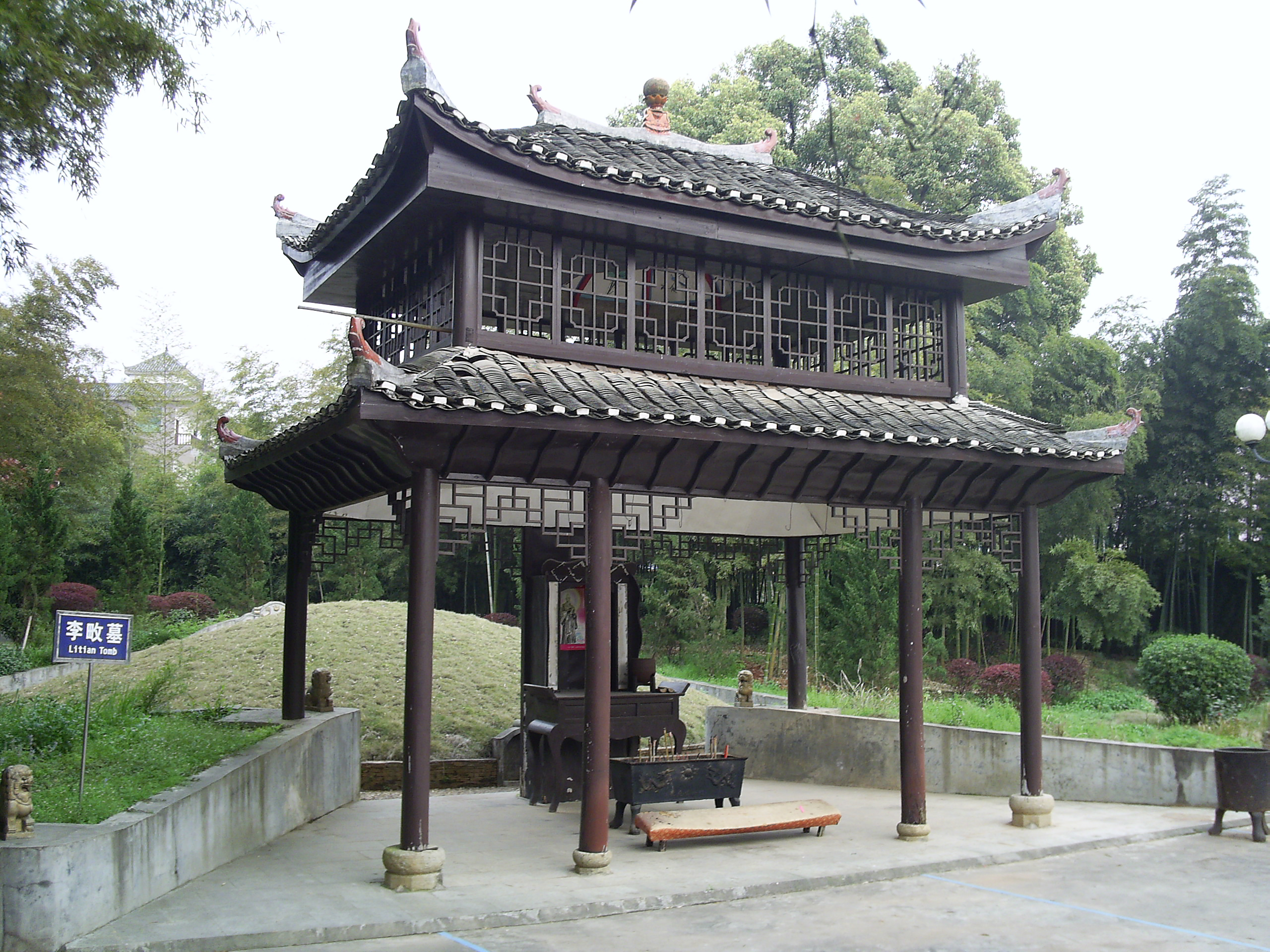 Li Tians tomb in Dayao, Liuyang city, Hunan, China 20070322 Photo: Anders Hållinder This picture is free to use / Anders Hållinder